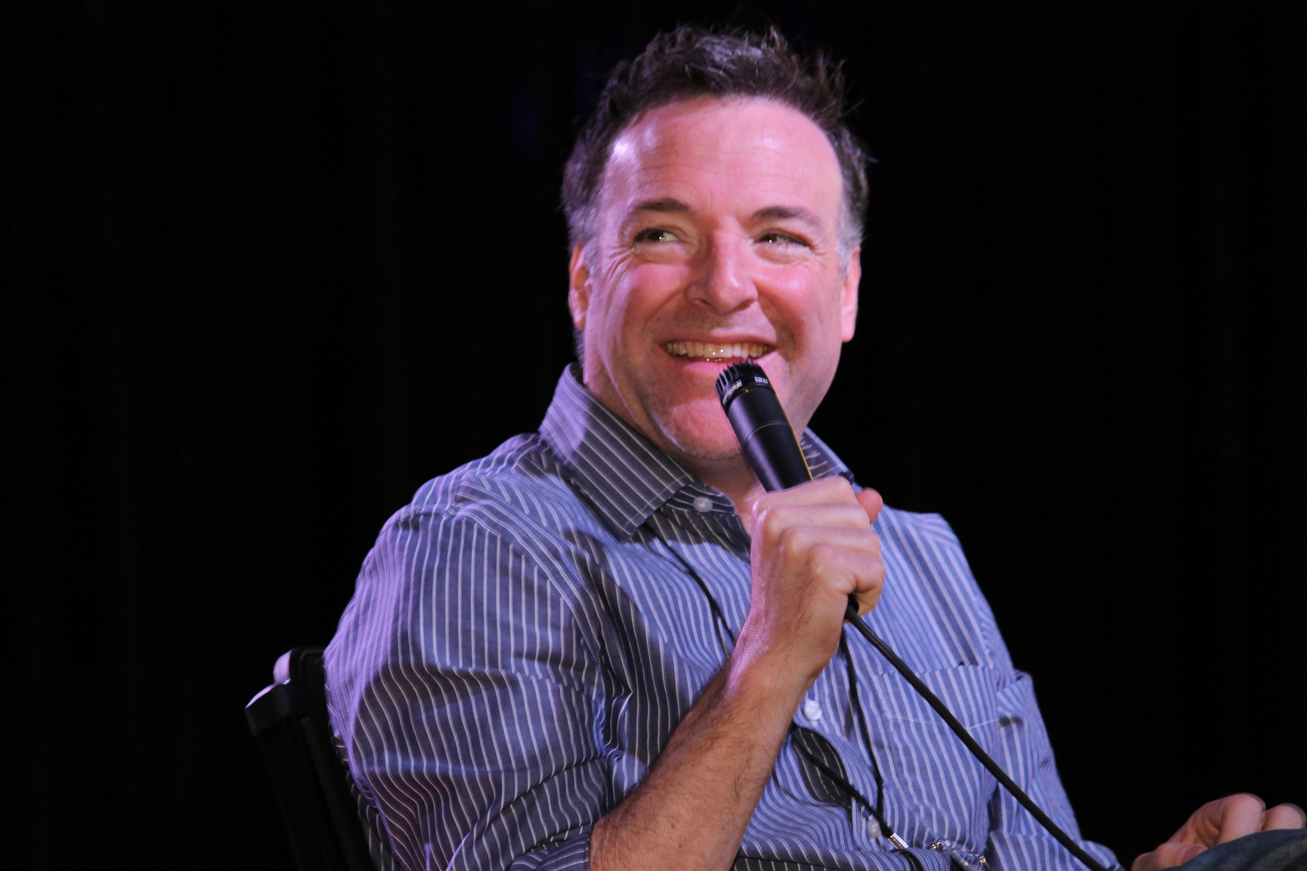 Richard Horvitz at Florida SuperCon 2014